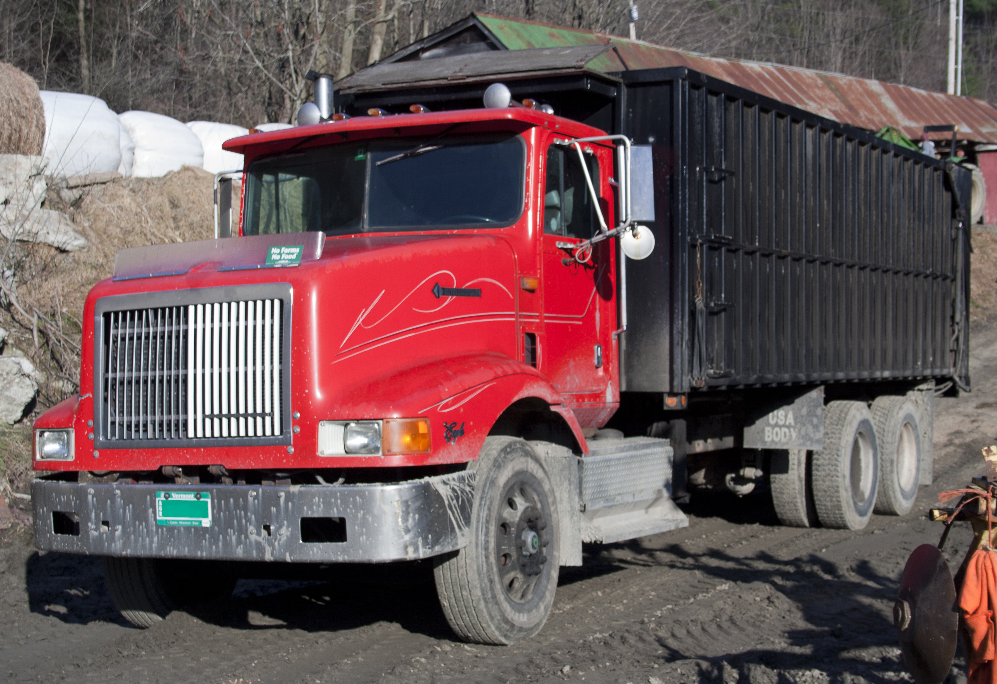 International Eagle farm truck in Vermont